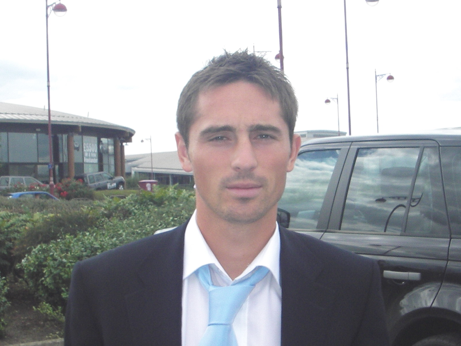 Tommy Smith, Watford player. Former Derby County and Sunderland player.